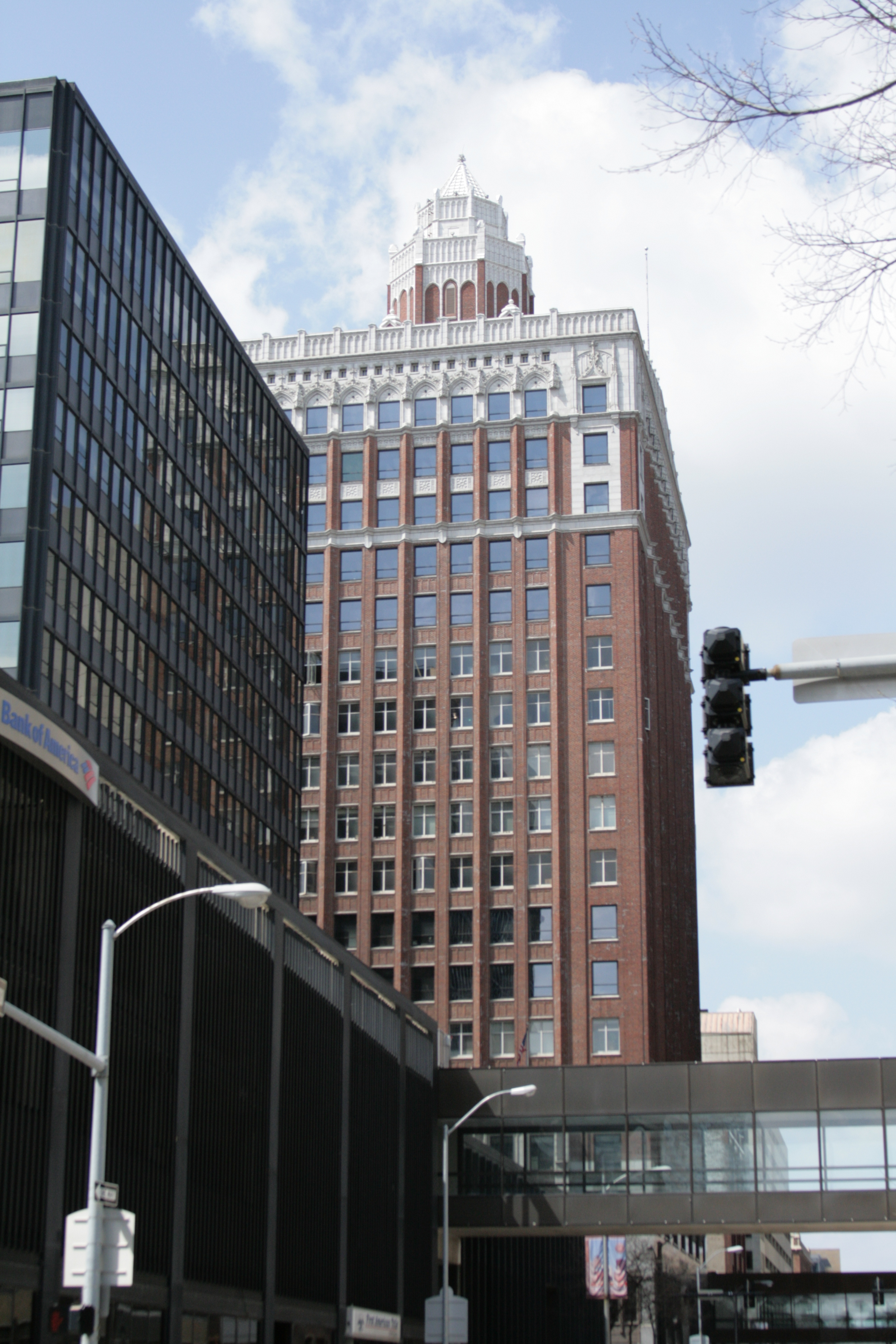 View of the Equitable Building in Des Moines, Iowa, USA, showing the north-east corner of the building